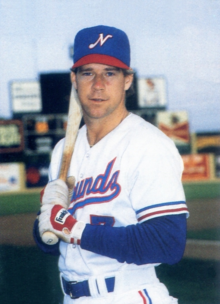 Catcher Doug Gwosdz of the 1988 Nashville Sounds Minor League Baseball team of the American Association